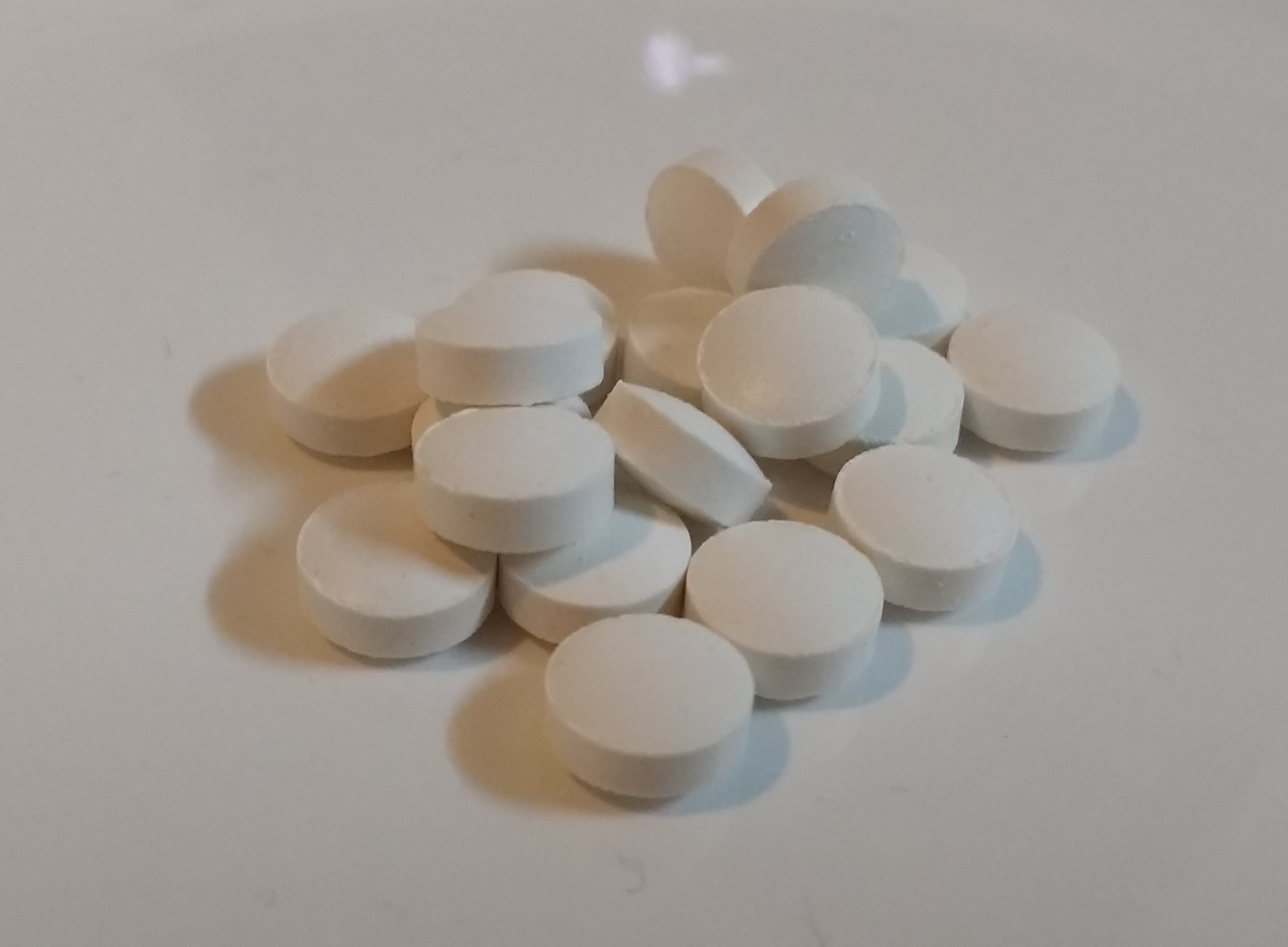 Vitamin D2 supplements (800 IU)